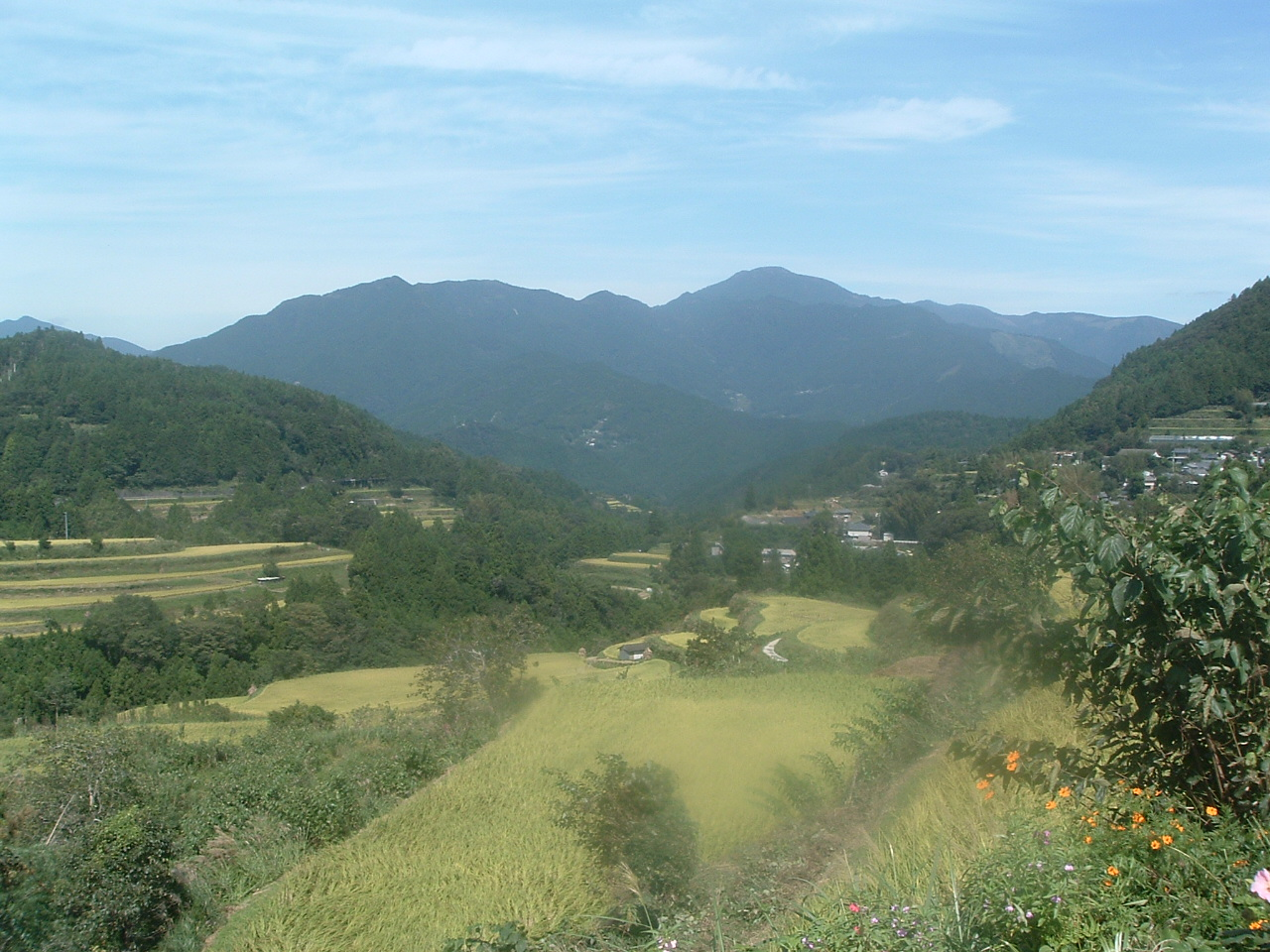 Mount Shiraga (Shiraga-yama) as seen from the SSW in Motoyama, Kochi Prefecture, Japan.